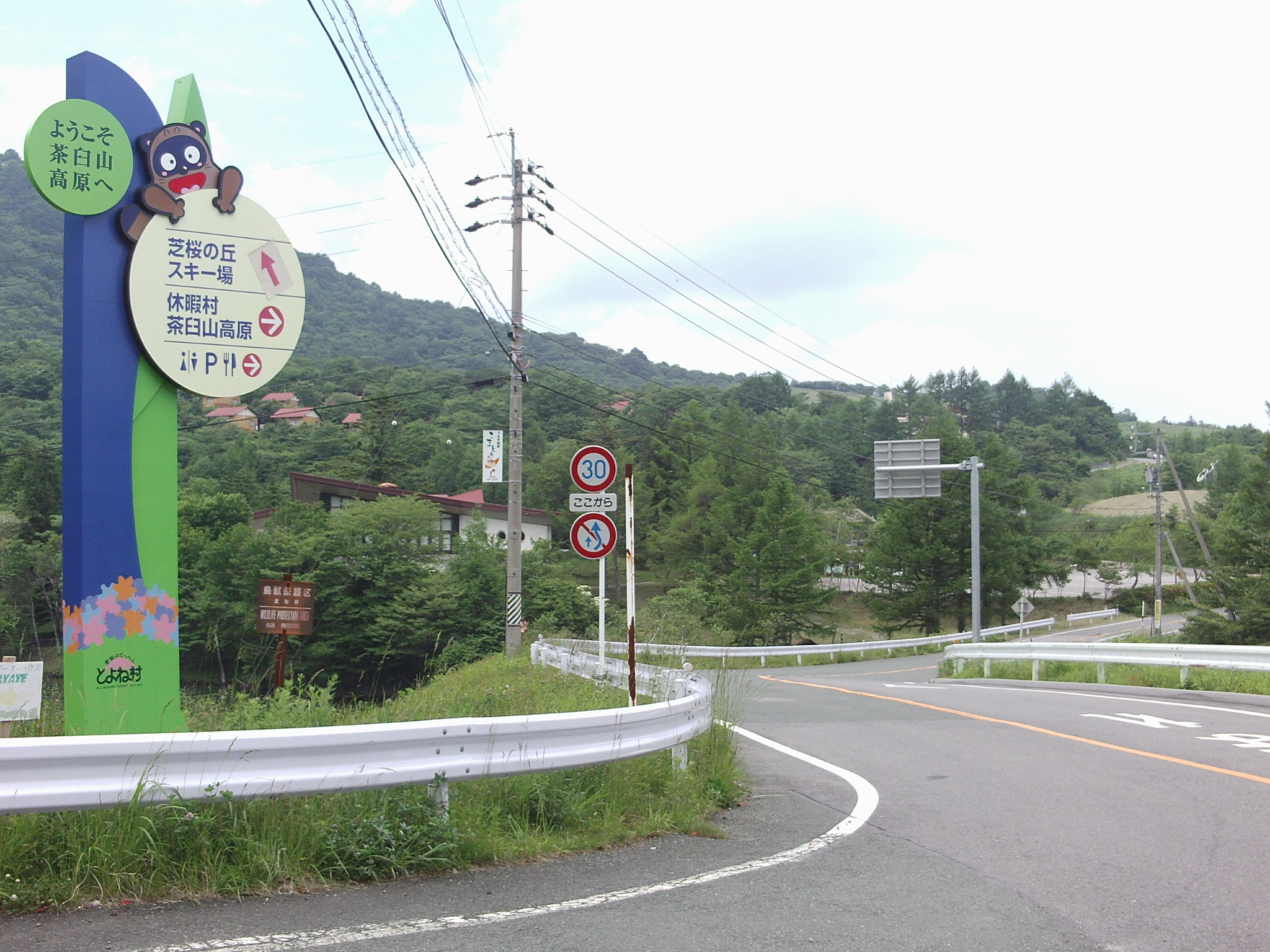 Aichi prefectural road No.506 in Sakauba, Toyone-mura, Kitashitara-gun, Aichi. Starting point, Mt. Chausuyama.